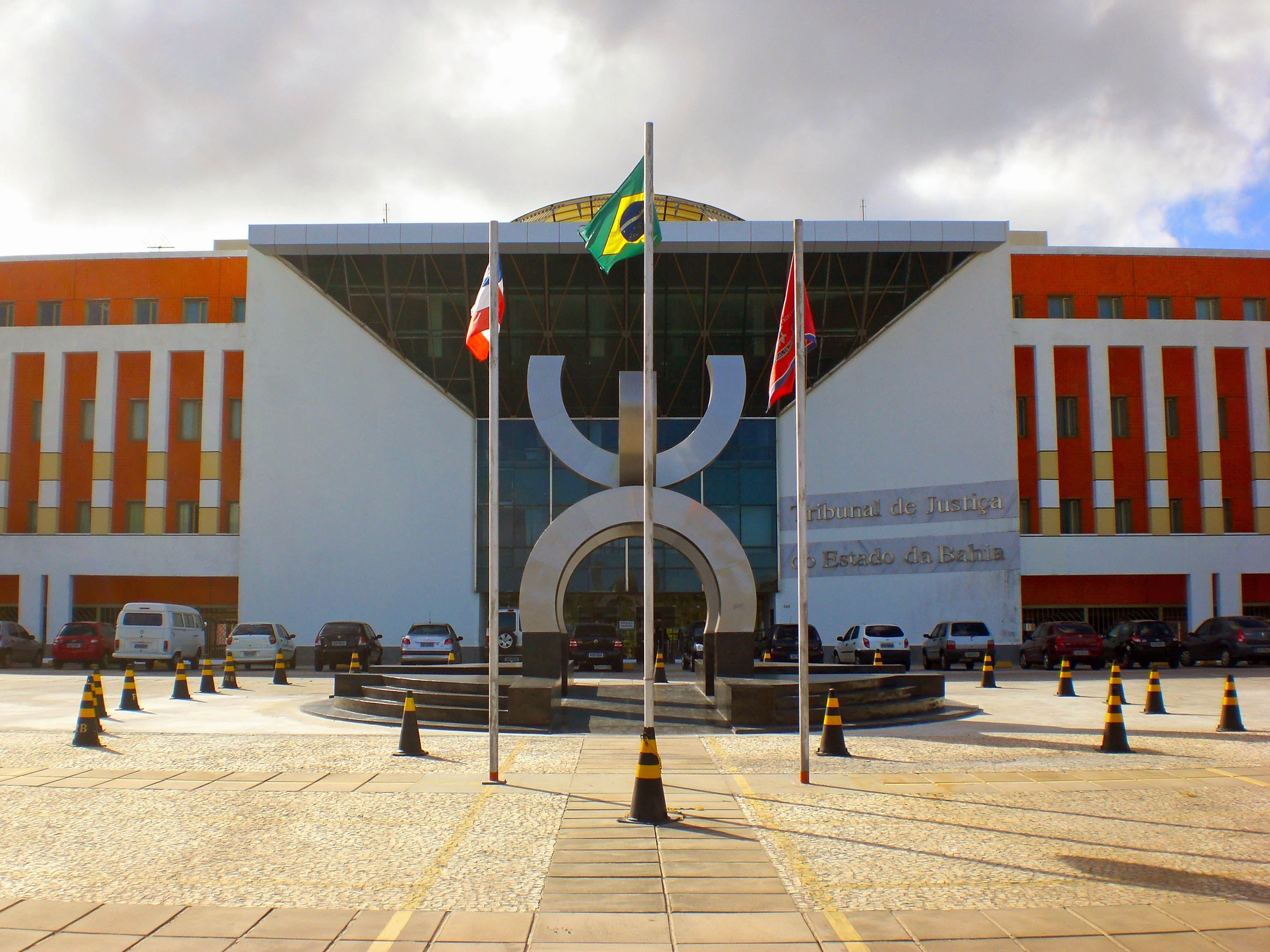 Court of Appeals of the state of Bahia, in Salvador, Bahia, Brazil. Tagalog: Tribunal de Justiça da Bahia, no Centro Administrativo da Bahia, em Salvador, Bahia, Brasil.